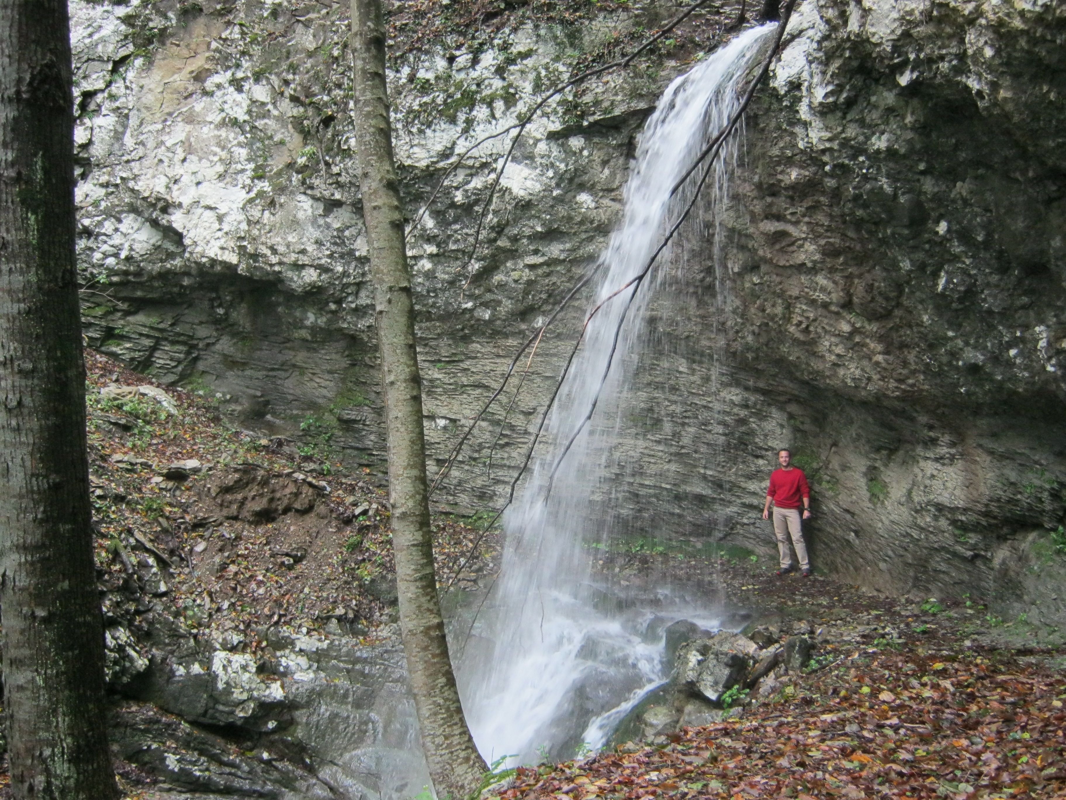 waterfall above Ciginj